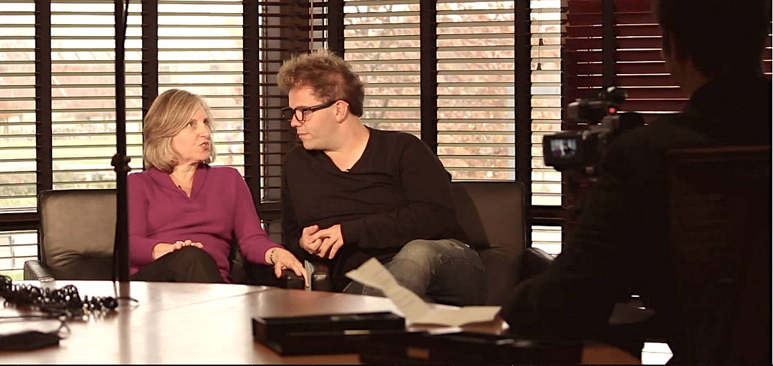 Jake and Donna are interviewed moments before hitting the stage at the DLLS.